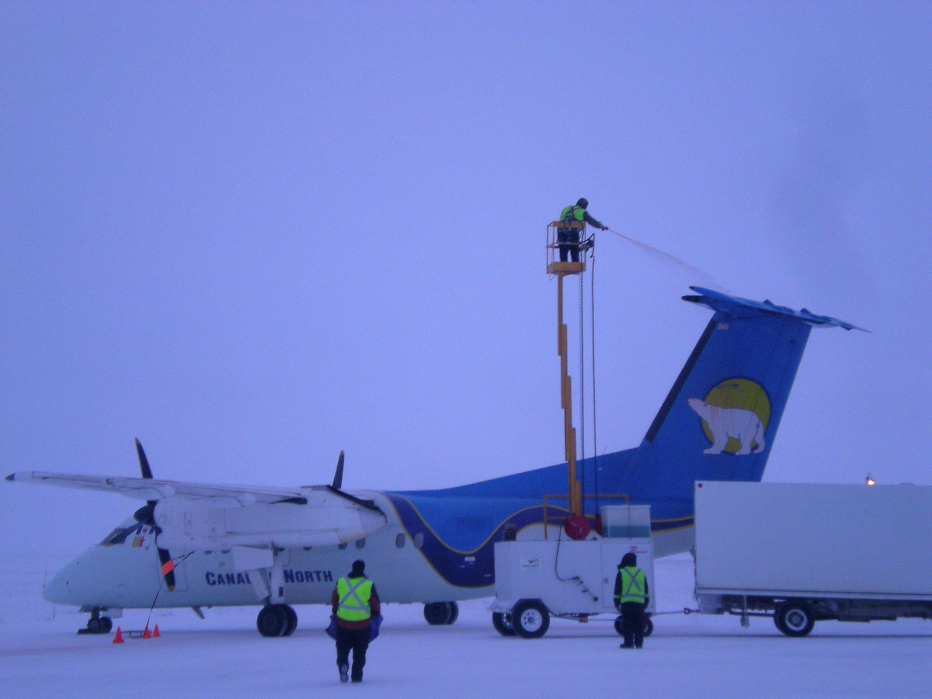 De-icing a Canadian North Dash 8 at Cambridge Bay Airport